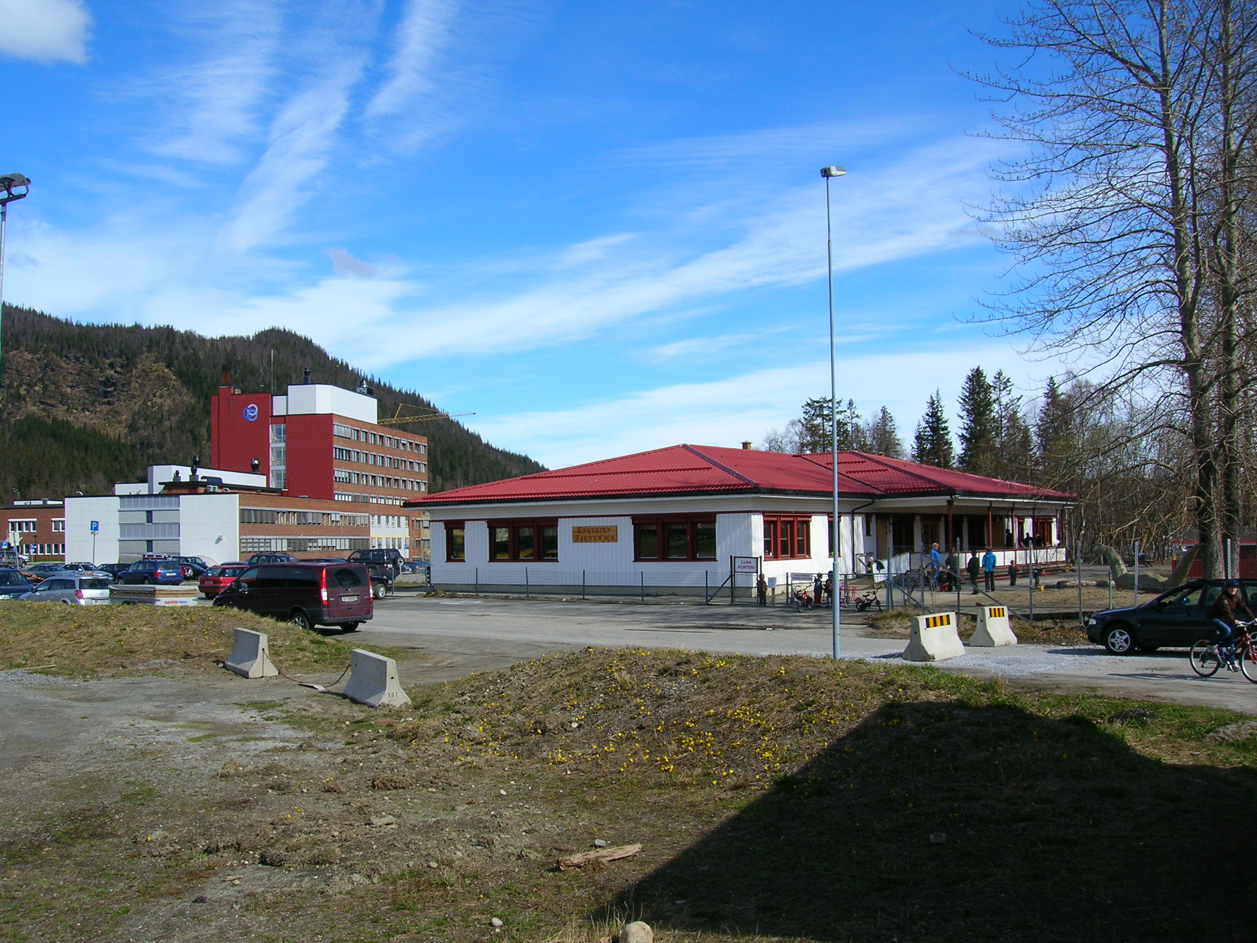 Engveien Kindergarten on Selfors, close to Ranas department of Helgeland hospital, 4 km north of Mo i Rana, Rana municipality, county of Nordland, Norway. Photo 14 May, 2007 with a Nikon Coolpix 5600 5,1 Megapixel camera.